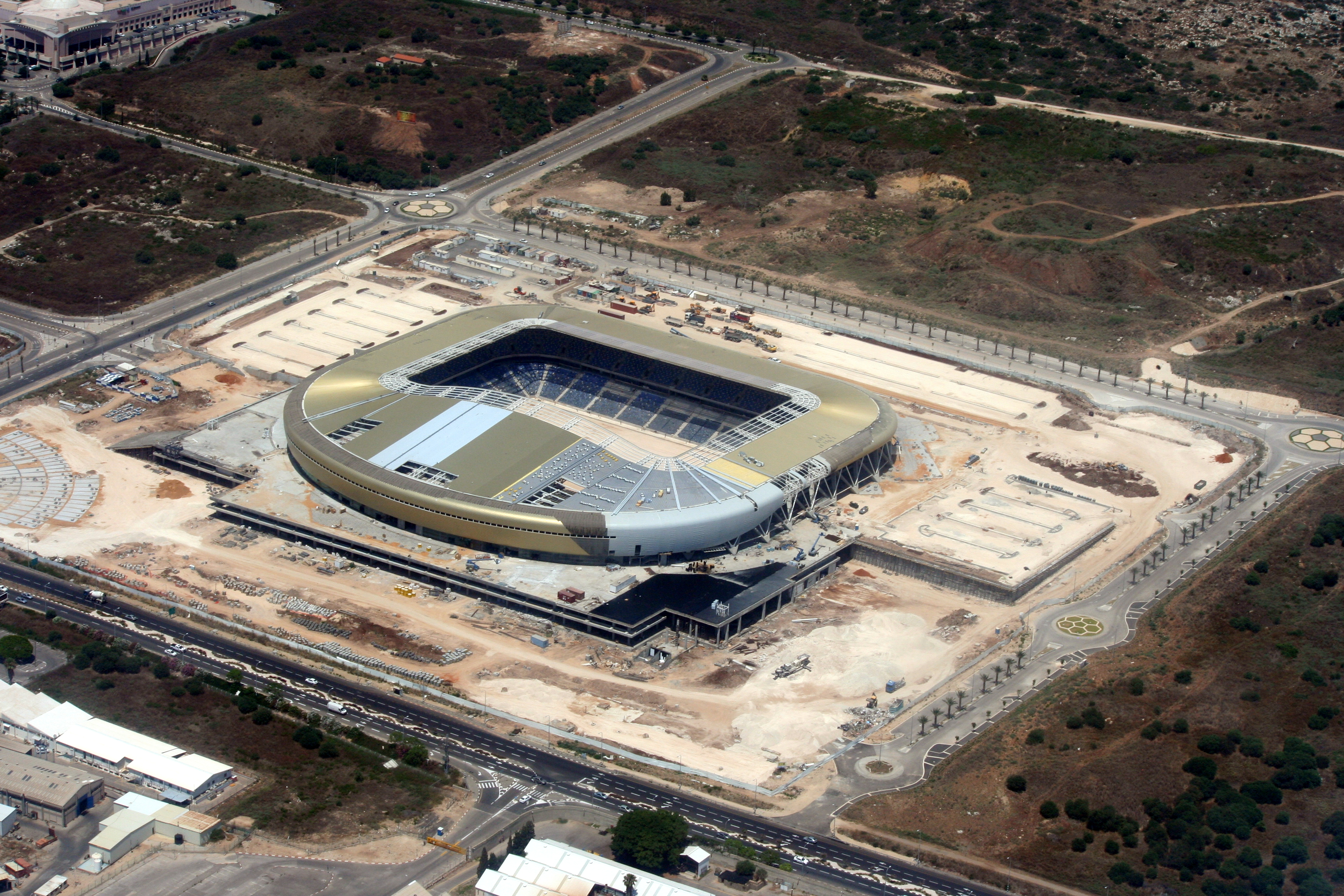 New Haifa Stadium, West Haifa